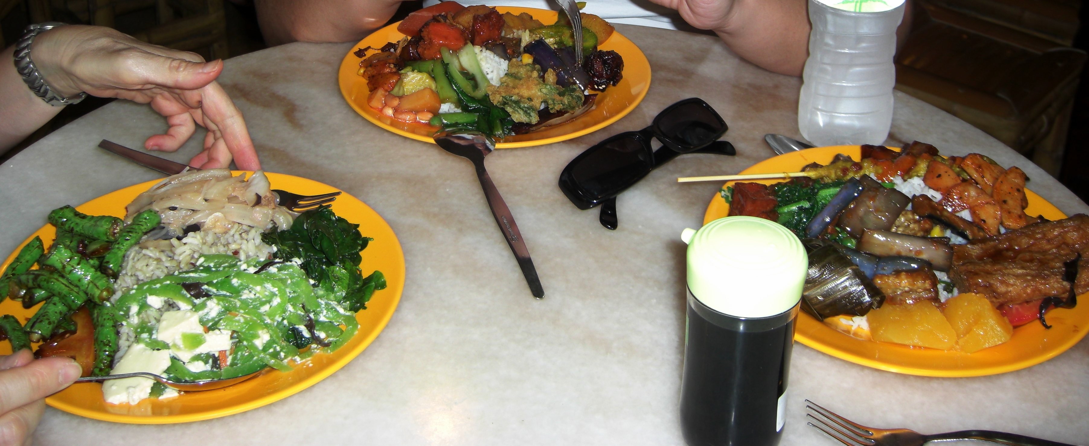 Economy rice dishes. Economy rice, found in Singapore and Malaysia, refers not to a specific dish in the Singaporean and Malaysian pantheon of cuisine, but rather to a type of food or a food stall commonly found in hawker centres or food courts in both countries.